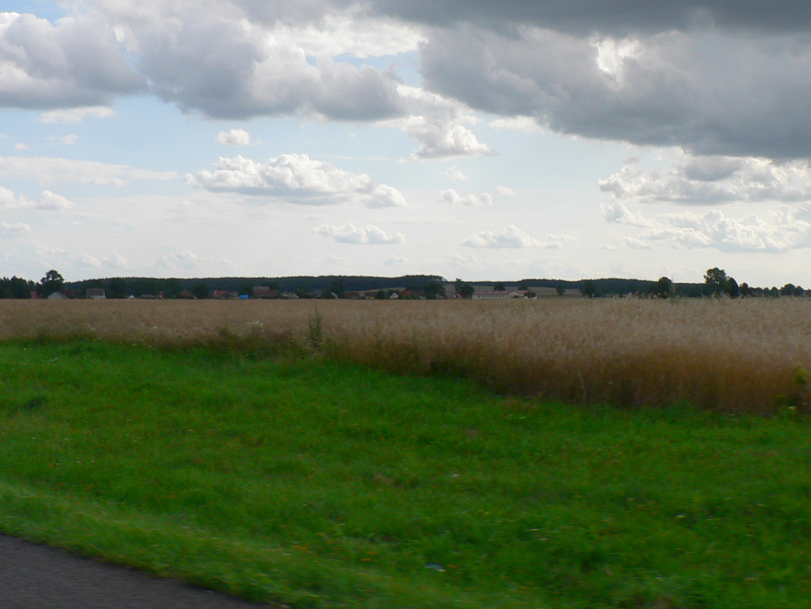 Rączki near Nidzica